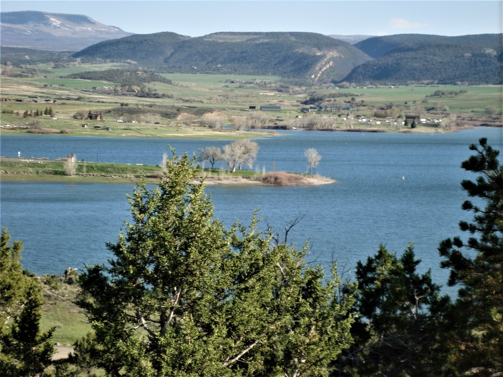 View looking south at Crawford State Park and Reservoir